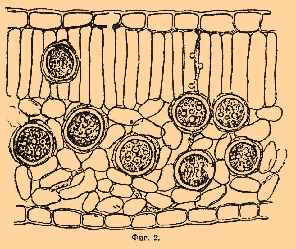 Illustration from Brockhaus and Efron Encyclopedic Dictionary (1890—1907)